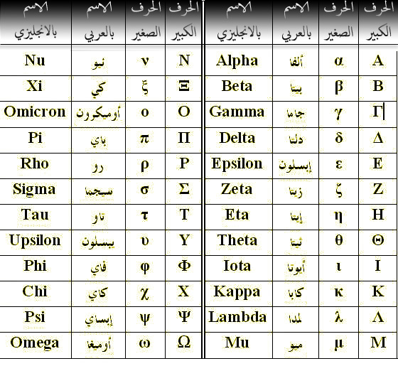 Latin-sympol